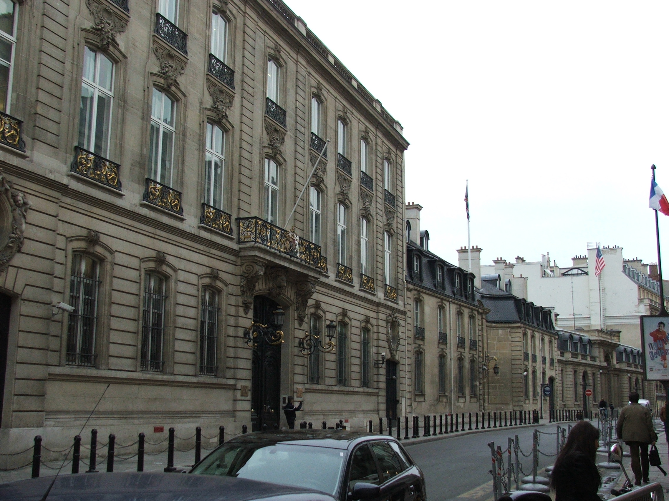 Embassy of United Kingdom (foreground) and the Official Residence of the American ambassador (background) in Paris - France.